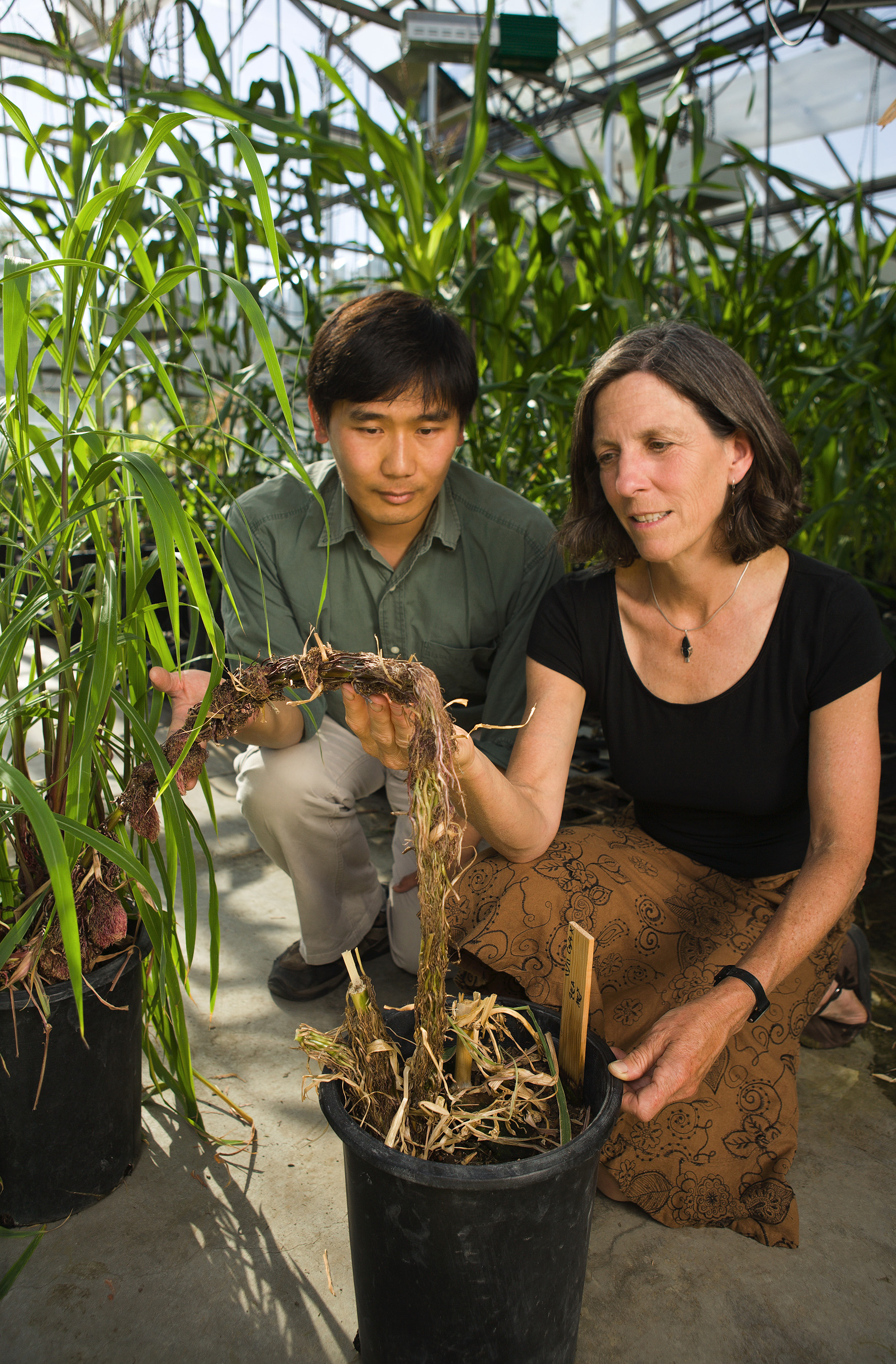 Sarah Hake and George Chuck examine a corn plant at the USDA's Plant Gene Expression Center.